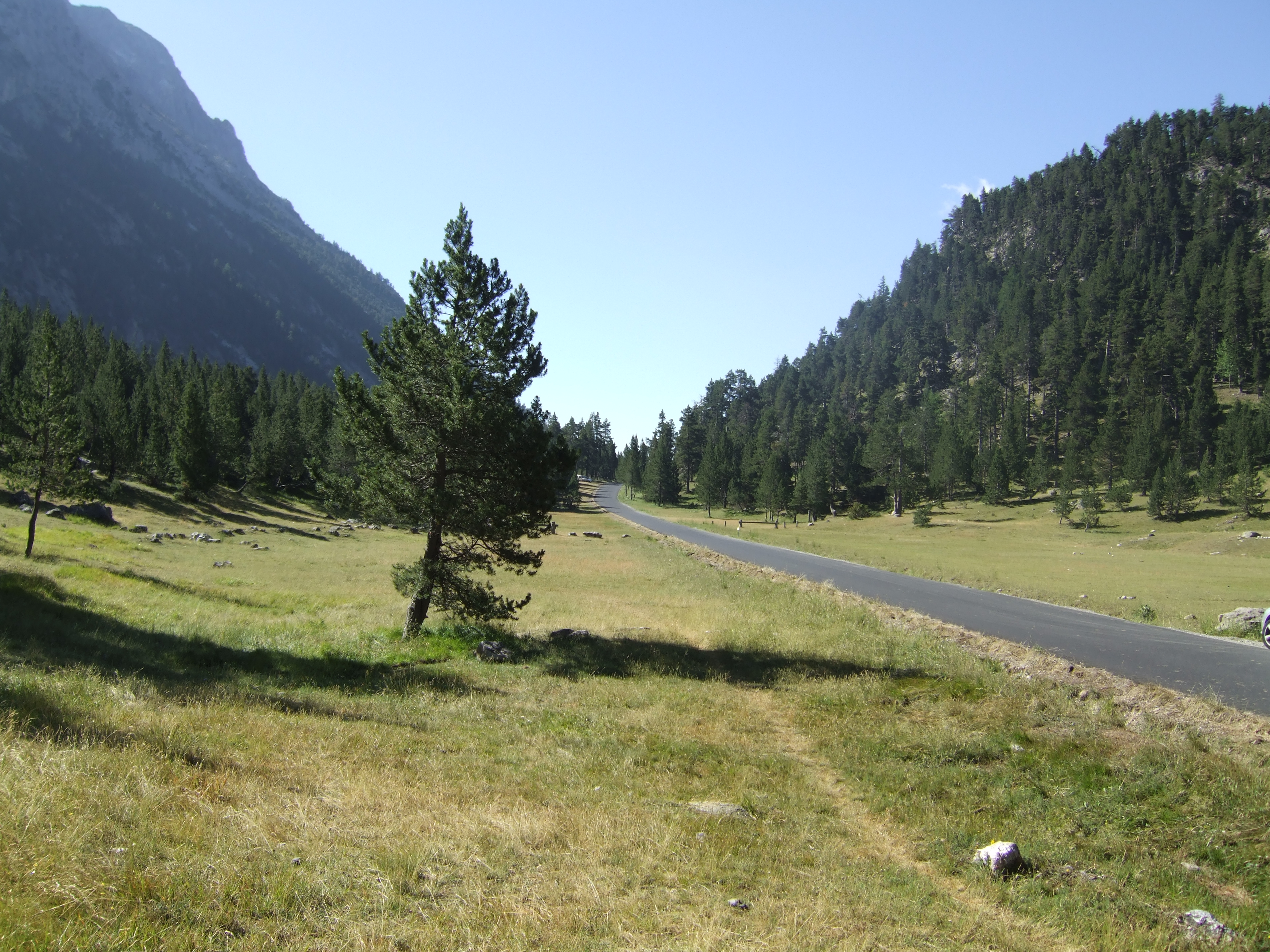 Stairpass of France